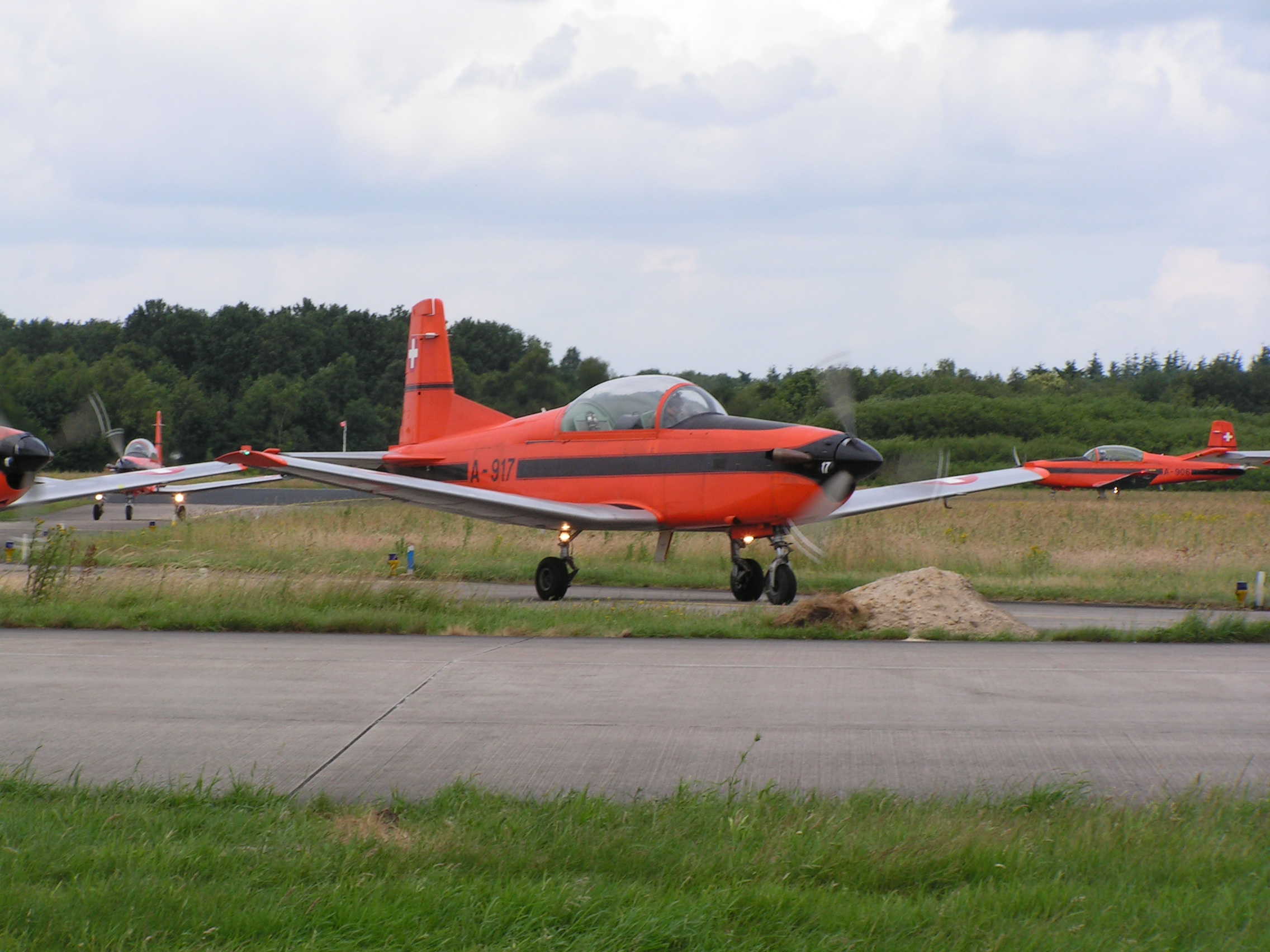 PC-7 Team taxiing after giving a show at the KLu Open Dagen 2007 in Volkel.